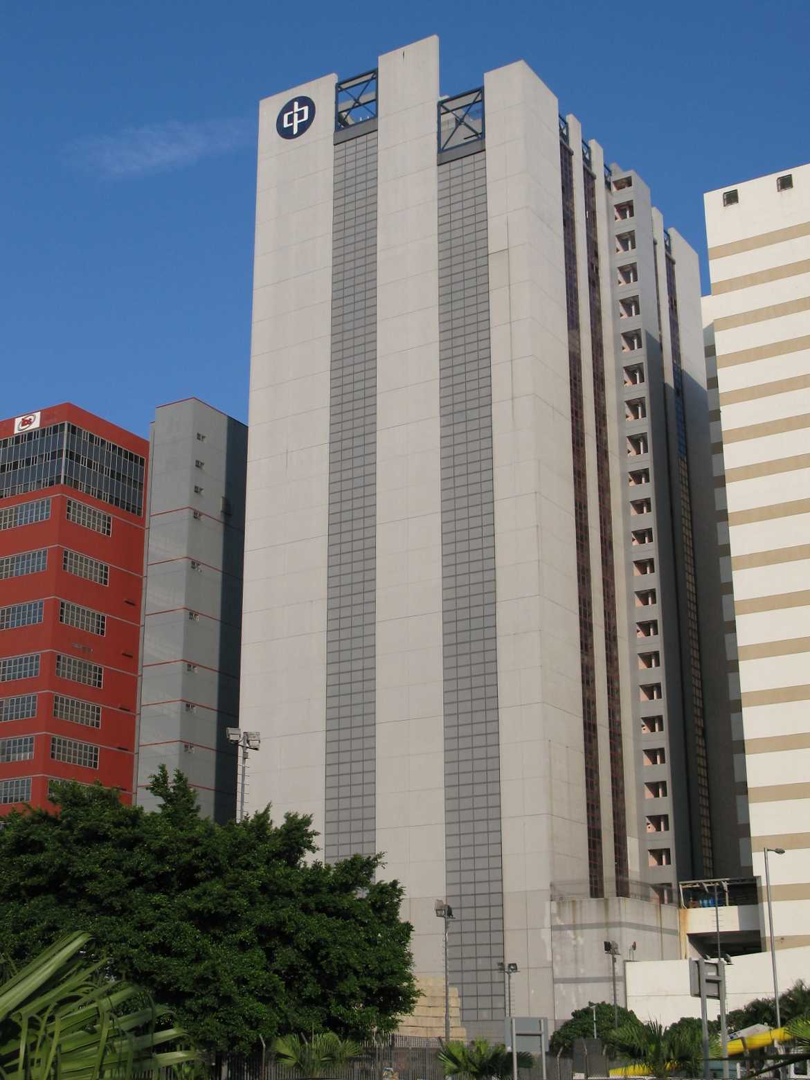 中華電力有限公司沙田中心 CLP Power HK Ltd Shatin Centre